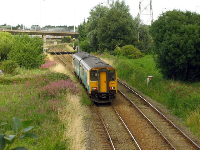 Borderlands Railway Line, Bidston. An Arriva Trains Wales liveried Class 150, unit number 257, diesel multiple unit, with the service from Wrexham, heads along the Borderlands Line into Bidston. Behind the A553 road bridge is a Merseyrail Electrics unit.